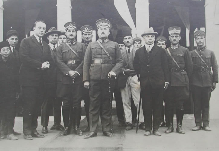 Kiazim Karabekir Pasha and his staff at Istanbul in 1924